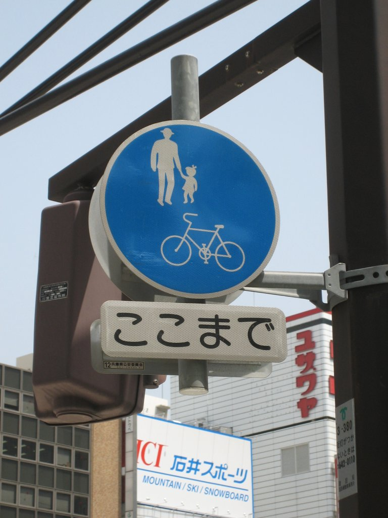 Pedestrian/bike path sign in Japan. (Text: Koko made - Up to here)